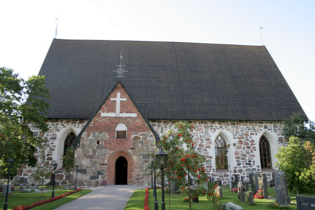 The Church of Hollola, Finland is a medieval stone church built in 1495–1510 during the end of the Catholic era, since the 1520s an Evangelical Lutheran church of the parish of Hollola